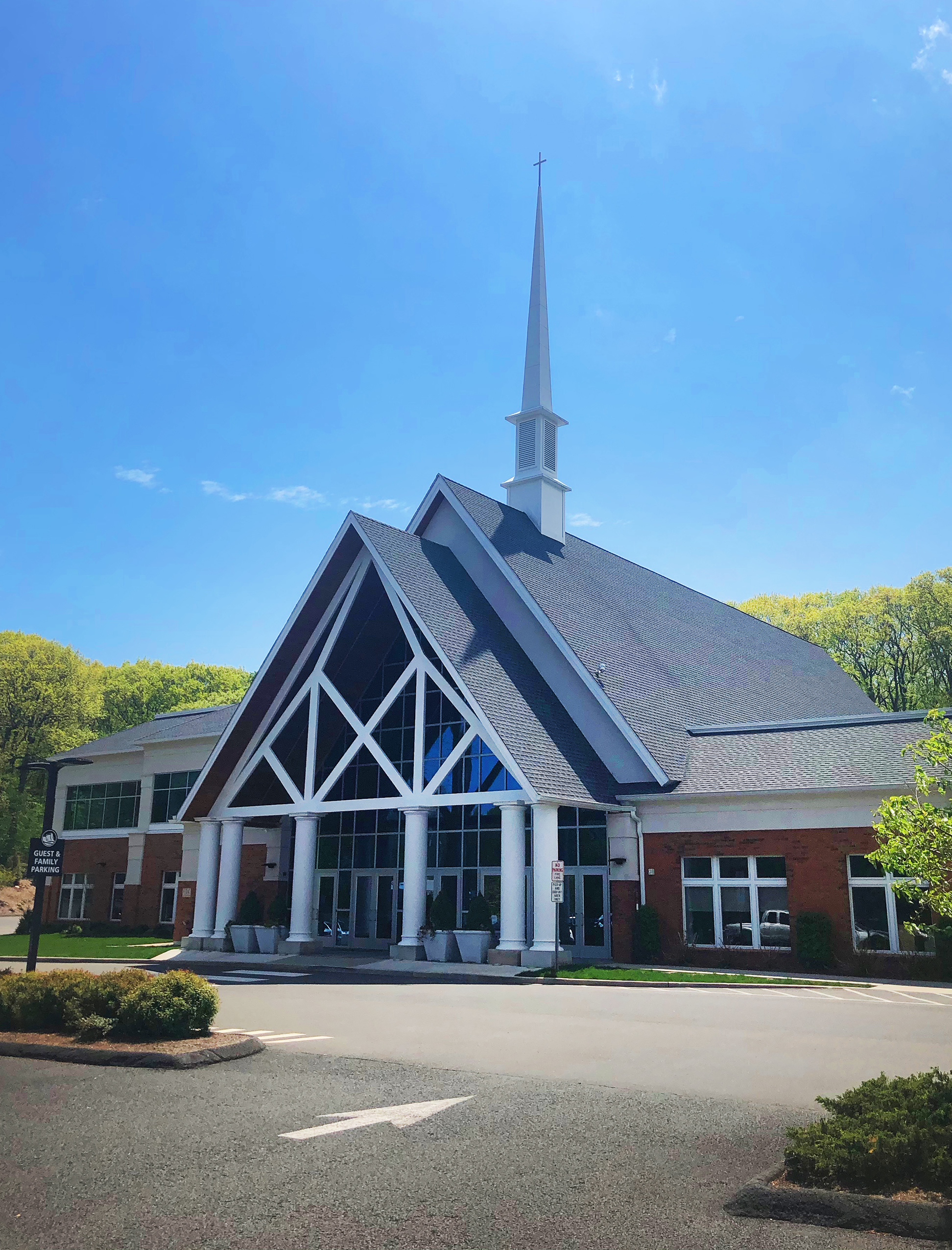 Exterior of Black Rock Church in Fairfield, Connecticut, United States of America